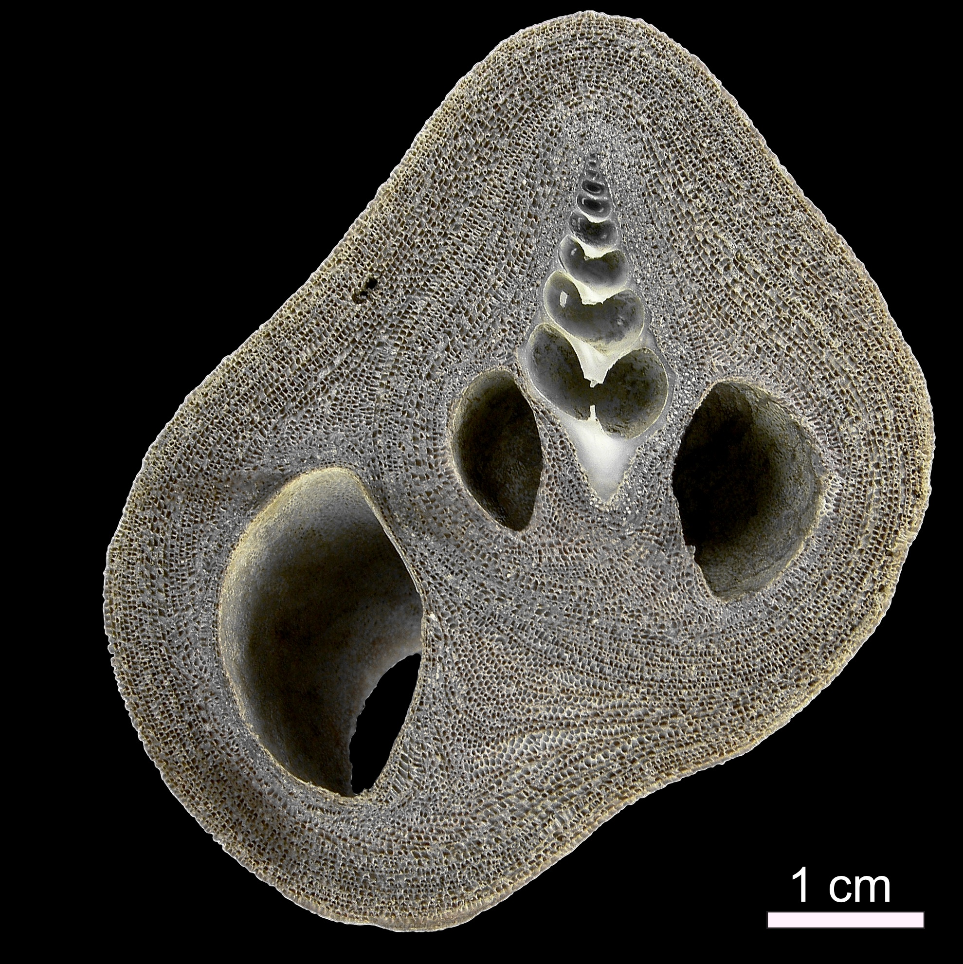 Mauritanian bryoliths are impressive examples of a mutualistic symbiosis between a hermit crab and encrusting bryozoans. Providing a cirumrotatory growth the bryozoan colony (Acanthodesia commensale) offers the crab (Pseudopagurus granulimanus) a helicospiral-tubular extension of its living chamber that once was situated within an initial gastropod shell.